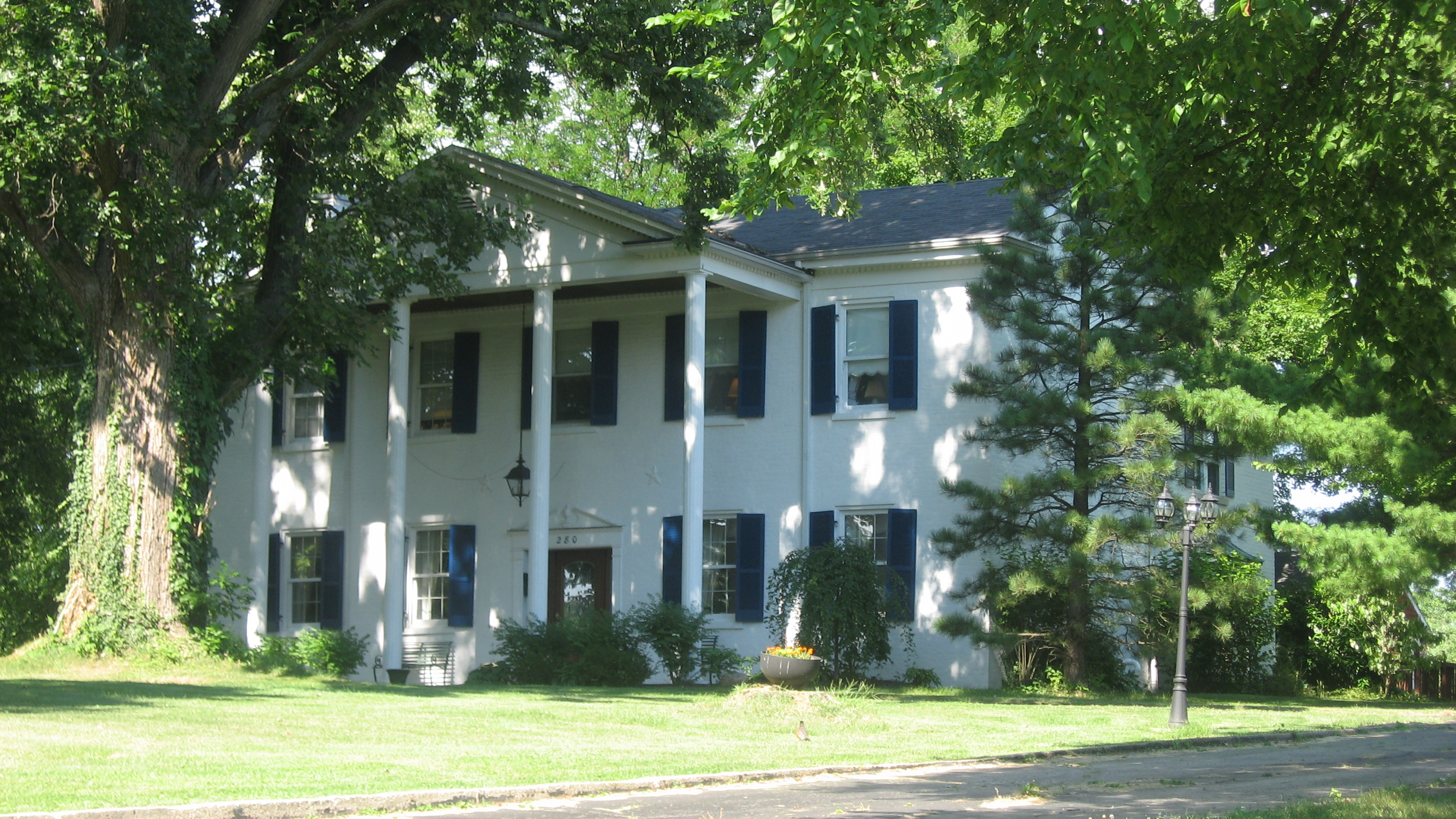 Front and southern side of the W. L. Williams House, located at 280 Anderson Ferry Road in Delhi Township, Hamilton County, Ohio, United States. Built in 1830, it is listed on the National Register of Historic Places.